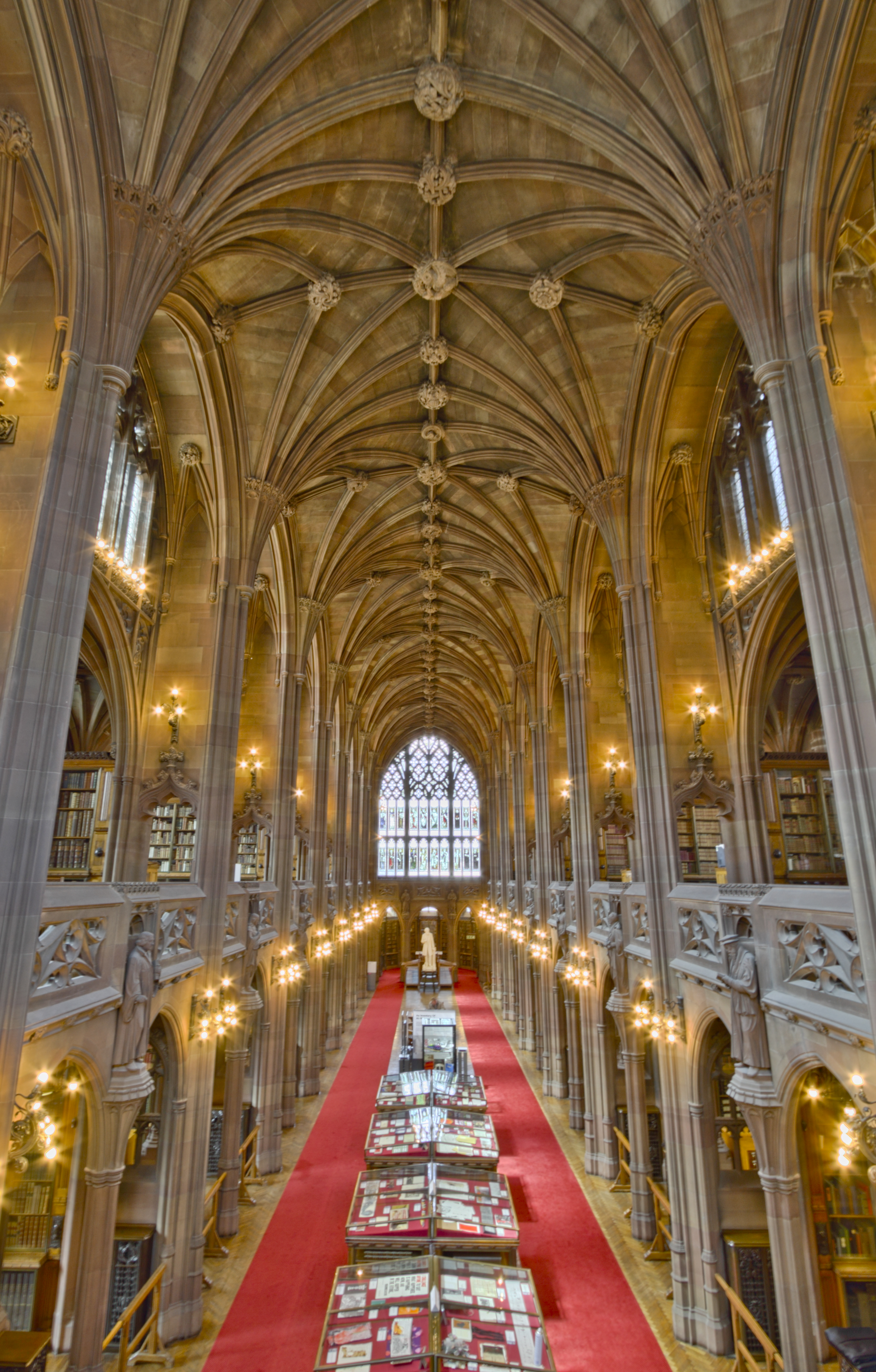 Here is a photograph taken from The John Rylands Library, which is part of Manchester University. Located in Manchester, Lancashire, England, UK.